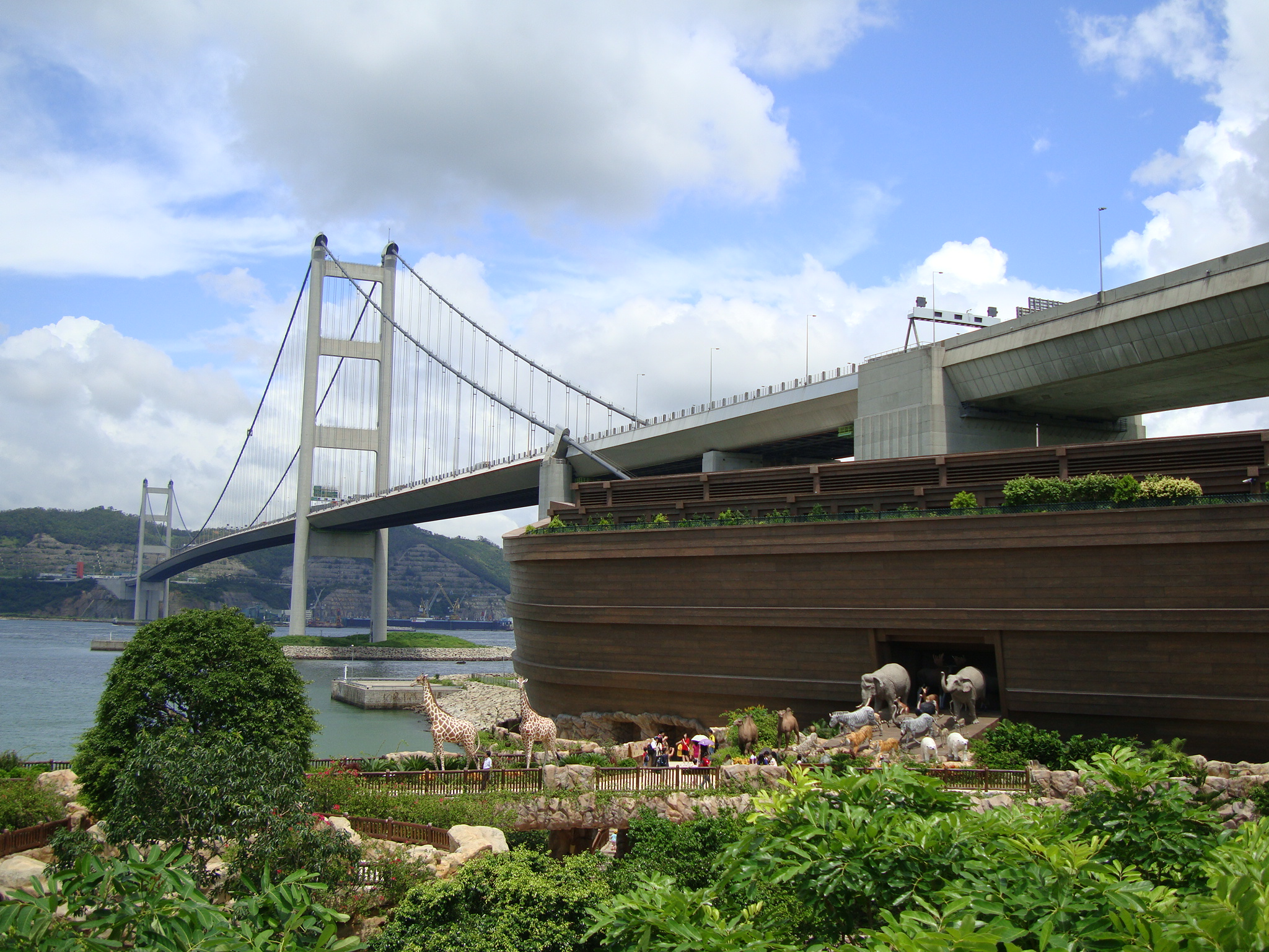 Noah's_Ark_and_Tshing_Ma_Bridge